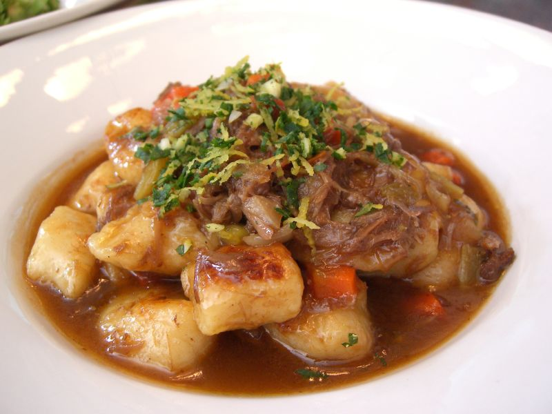 Beef Ragu with Gnocchi - Lower House, Federation Square. Smooth, light and buttery gnocchi sitting in a pool of thick rich braising sauces with small chunks of tender beef. The grated zest of lemon and lime gave the dish a surprising lightness! Upper House/Lower House Federation Square Melbourne